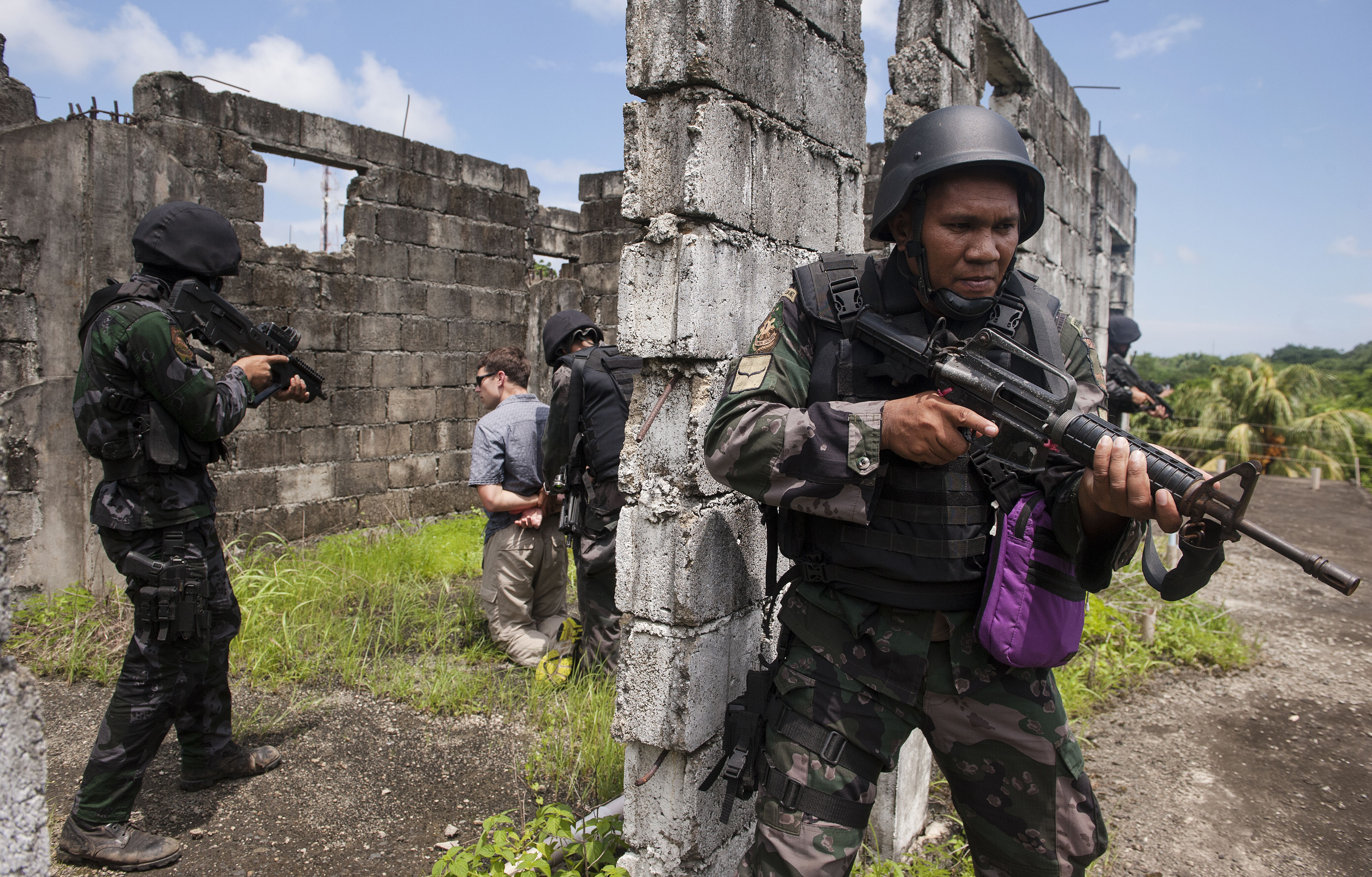 A Philippine National Police (PNP) Maritime Group member provides security as other PNP Maritime Group members detain U.S. Navy Lt. Franz Federshmidt, Joint Interagency Task Force West training liaison officer, as he roleplays the part of a drug trafficker during a direct action training scenario as part of the Joint Interagency Task Force (JIATF) West exercise Aug. 6, 2014, in Puerto Princesa, Philippines. PNP police officers received training from U.S. Army, Operational Detachment-Alpha Special Forces operators to increase their capabilities in support of counterdrug efforts during JIATF West. The mission of JIATF West is to reduce threats in the Asia-Pacific by combating drug related transnational organized crime. The work of JIATF West supports counterdrug efforts of partner nation law enforcement and military units with law enforcement or border security responsibilities. (U.S. Air Force photo by Staff Sgt. Christopher Hubenthal)